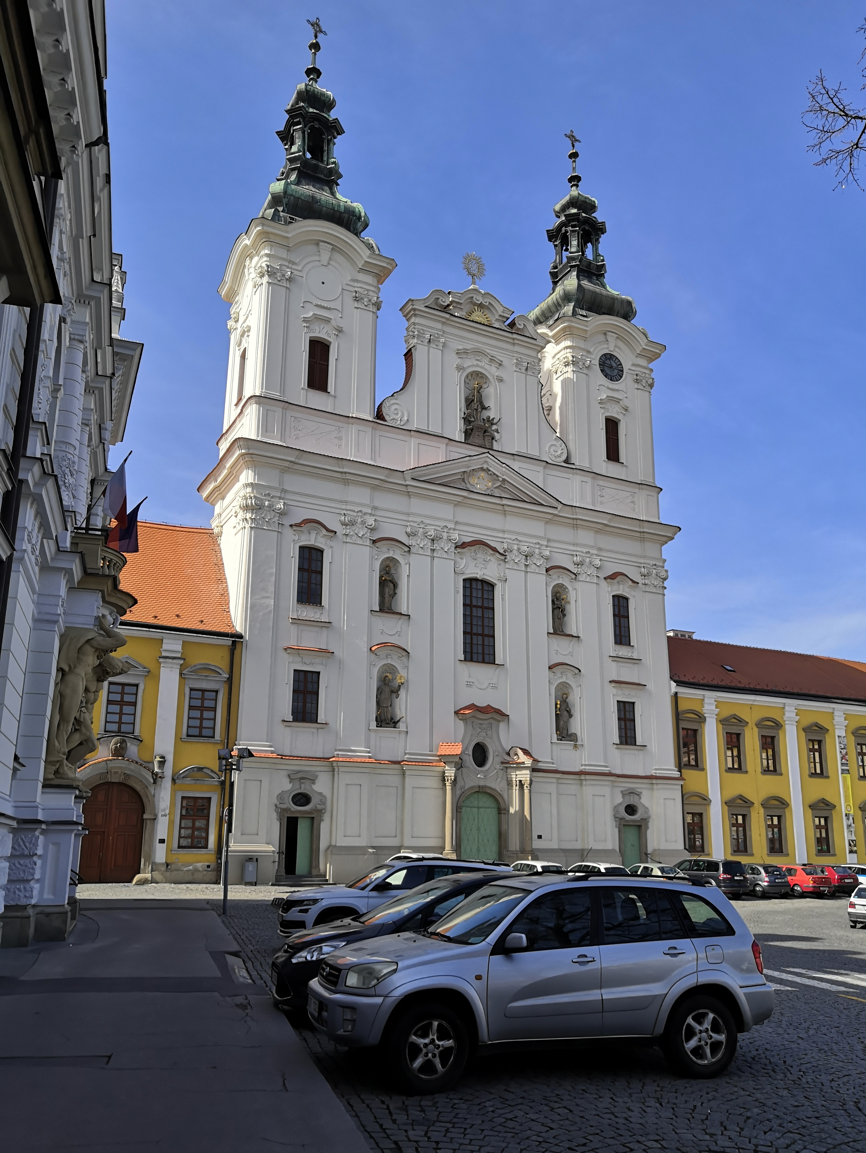 Uherské Hradiště, Czechia.